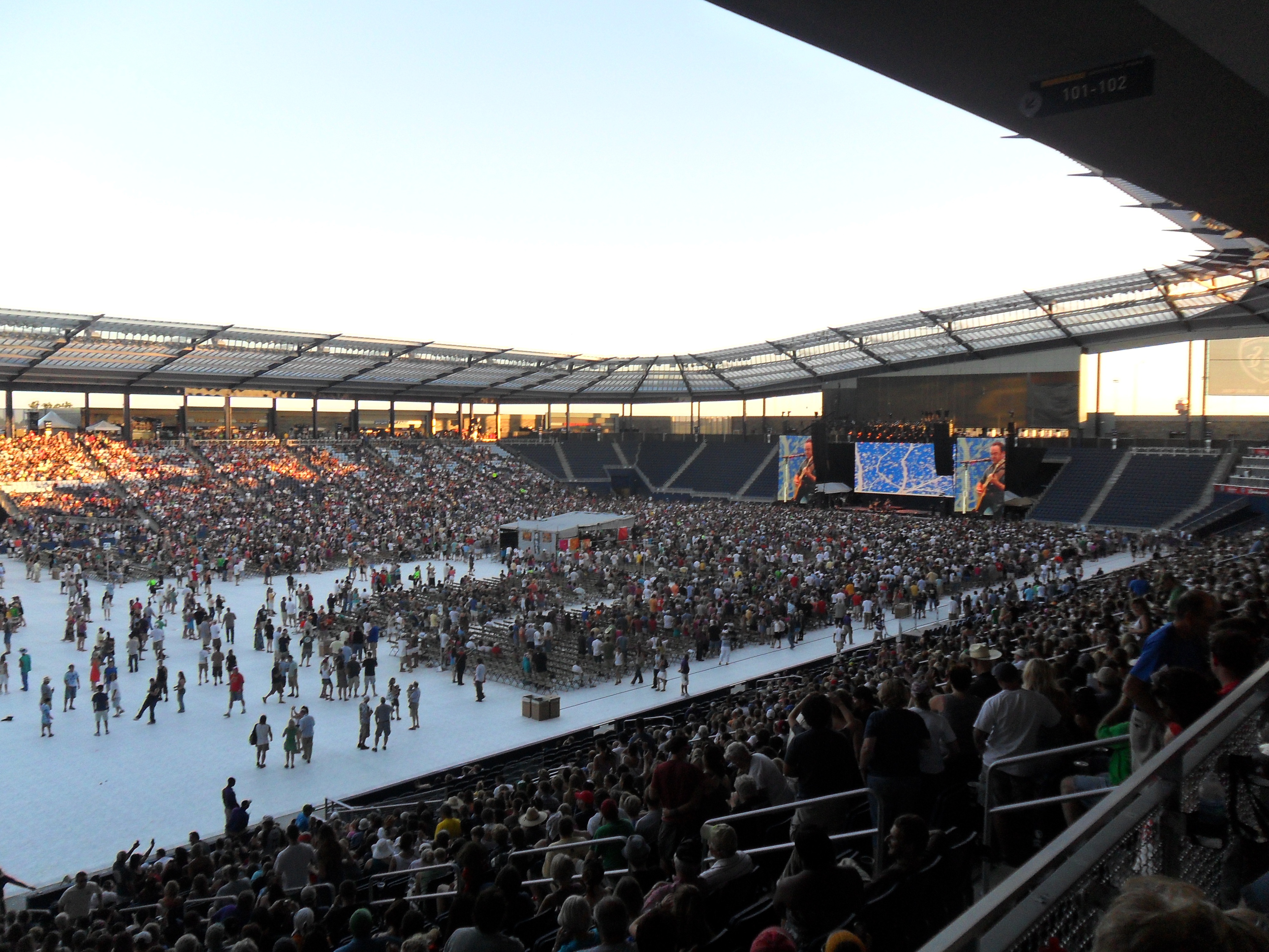 Dave Matthews and Tim Reynolds performing live 13 August 2011 at Livestrong Sporting Park in Kansas City, KS. Farm Aid 2011.